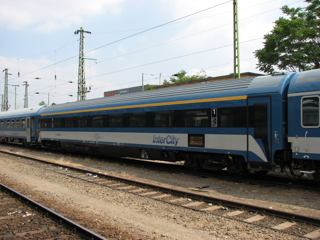 MÁV IC3 passanger coaches